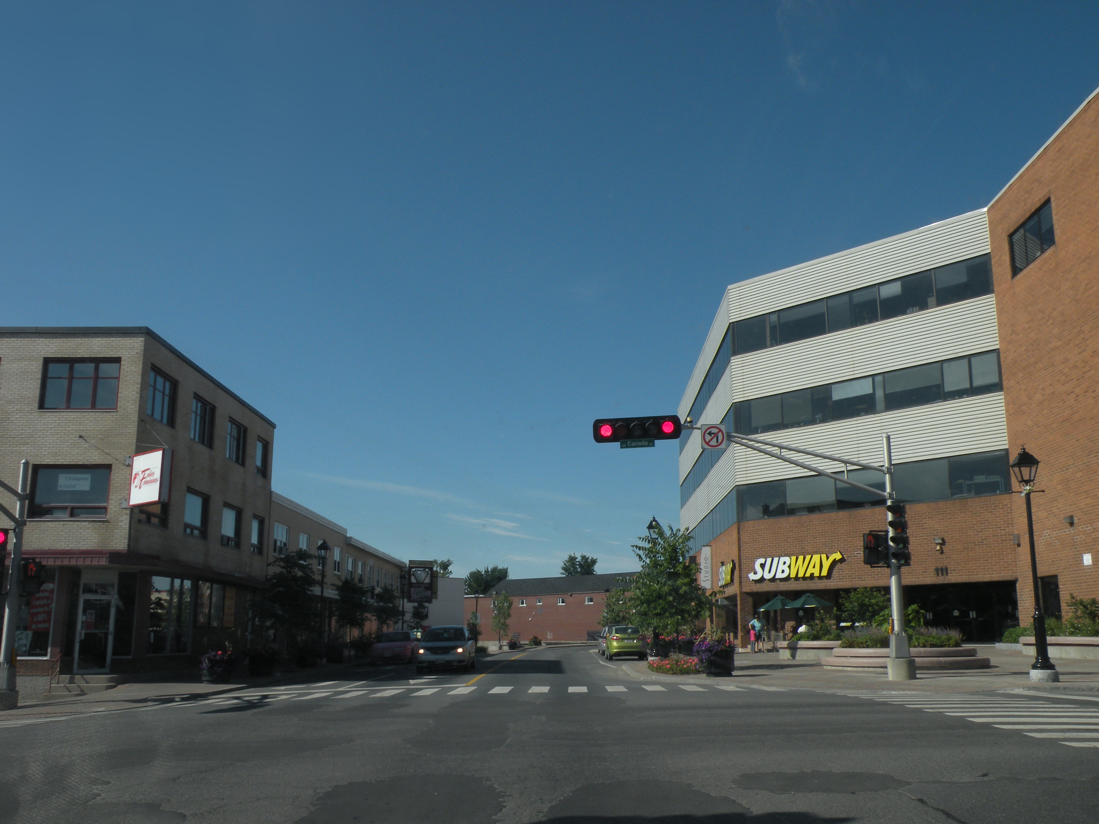 Corner of Canada Road and De L'église Street in downtown Edmundston, New Brunswick, Canada.